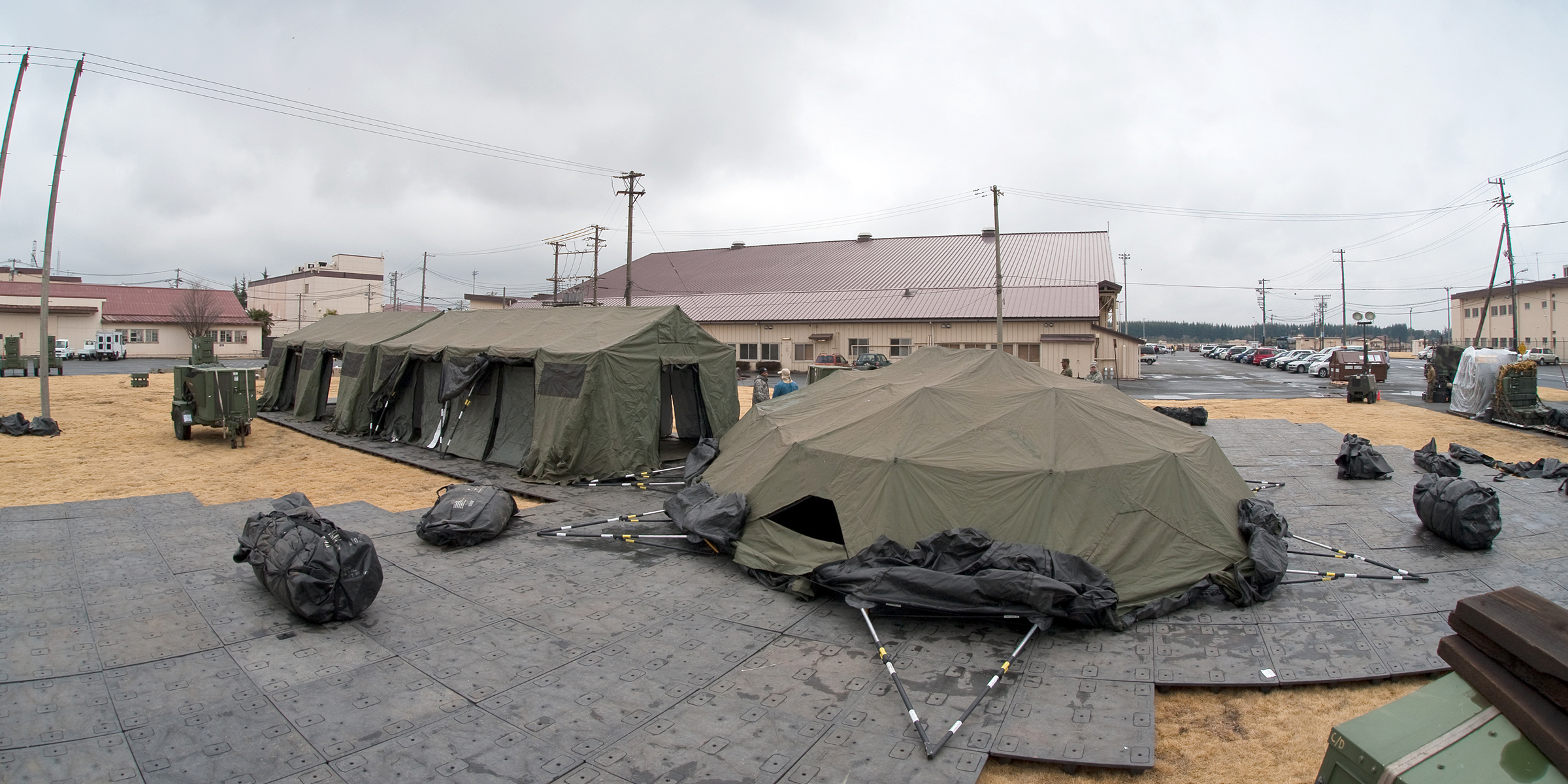 Pacific Command personnel build tents March 22, 2011, at Yokota Air Base, Japan. The tents will provide additional workspace for personnel deploying to Yokota AB in support of Operation Tomodachi. (U.S. Air Force photo/Osakabe Yasuo)